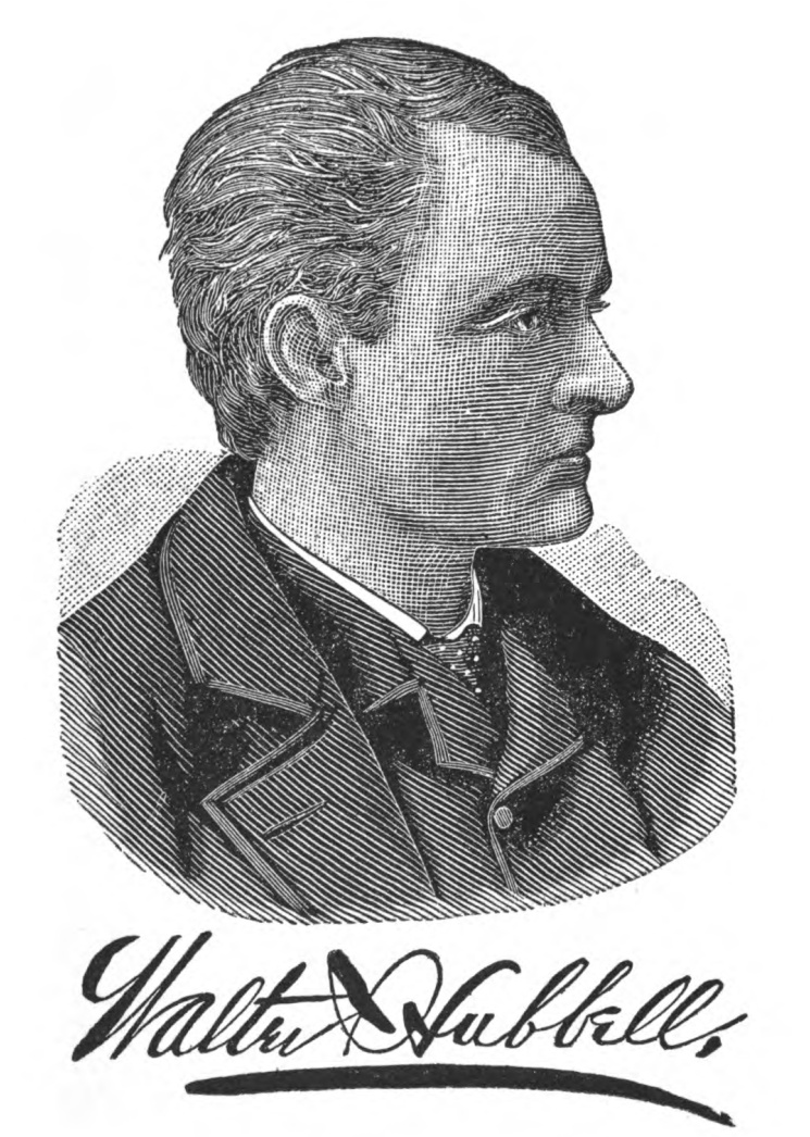 Walter Hubbell who investigated the Great Amherst Mystery.